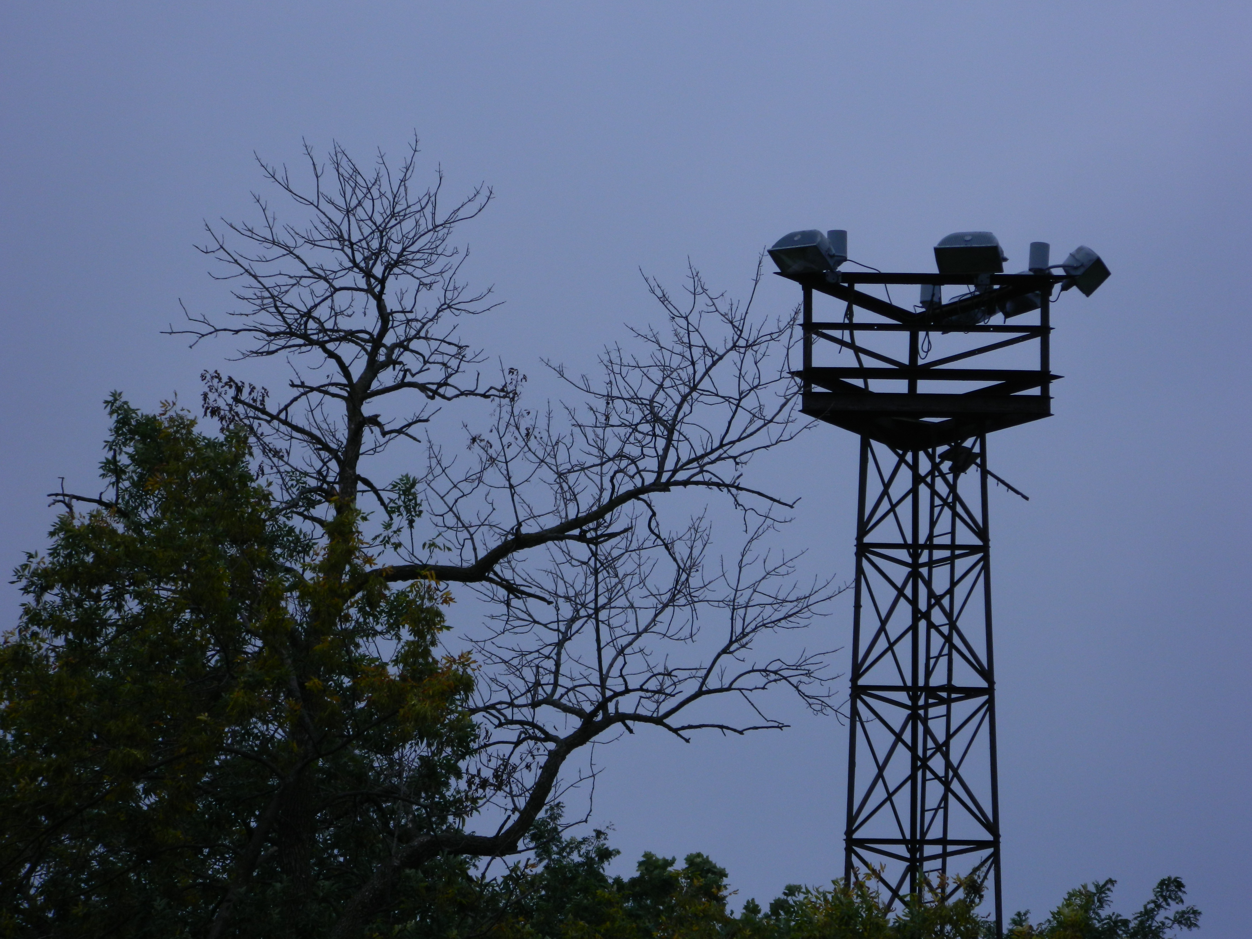 The light tower at Eugene Field Park, Chicago. Erected in 1937, the tower is still in use today; it provides illumination for the recreation areas in the park - mostly the tennis and basketball courts(s).